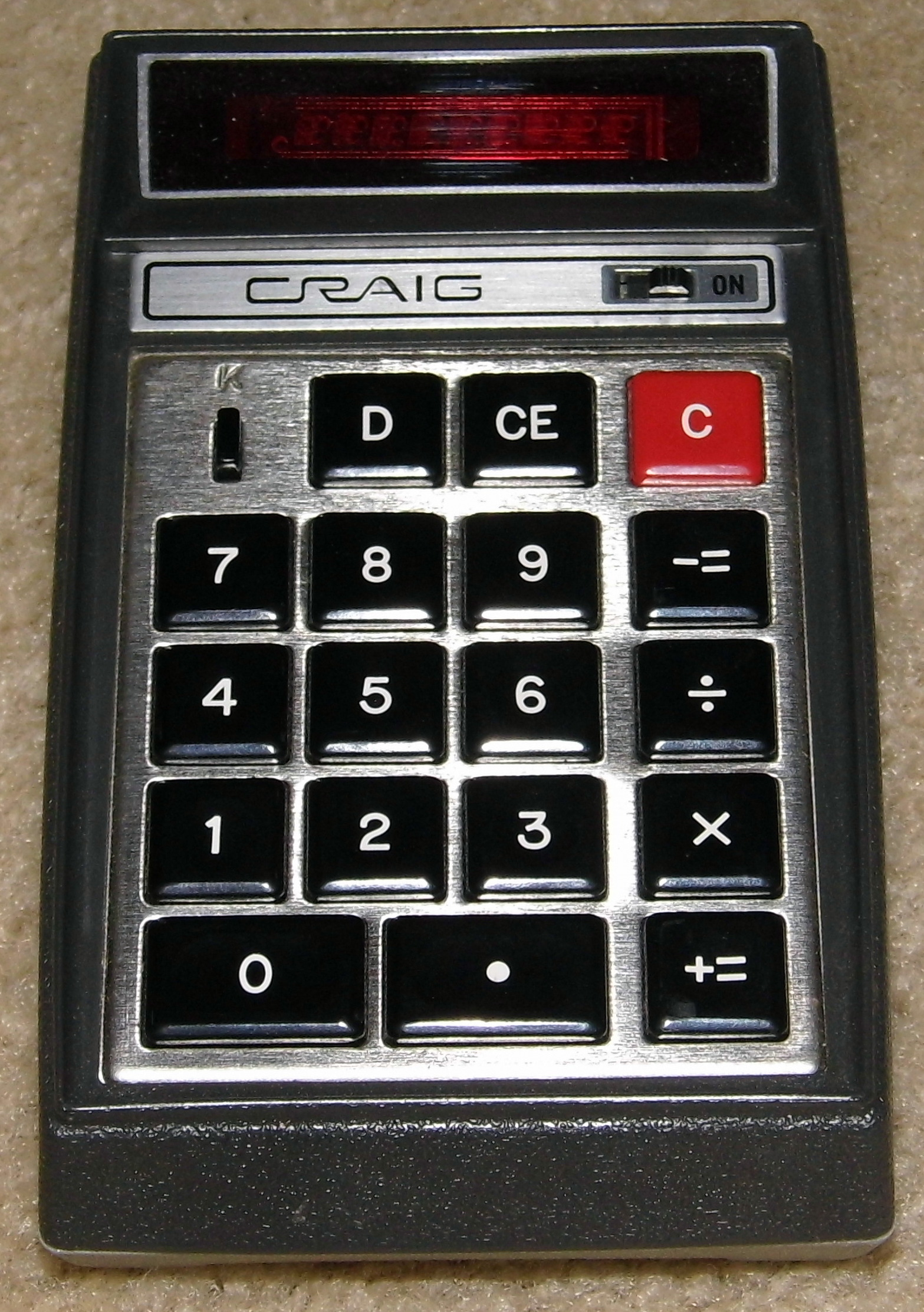 Vintage Craig Electronic Pocket Calculator, Model 4501, Made by Bowmar for Craig (Bowmar Model 901B), Made in the USA, New Price Was 239.95 USD, Circa 1971